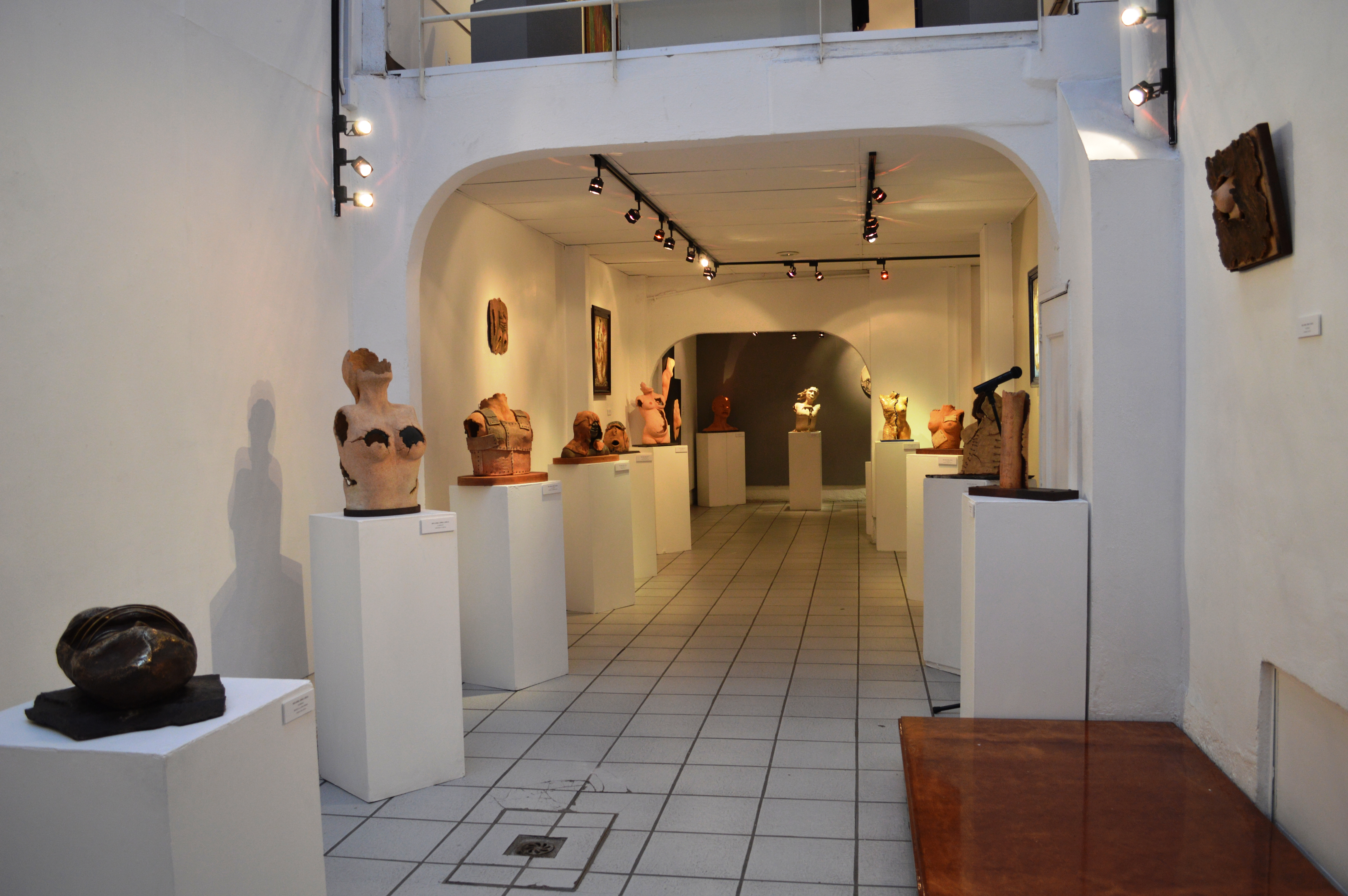 View of the exhibiton of Poesía para la Vida of Deyanira África Melo at the Salon de la Plastica Mexicana